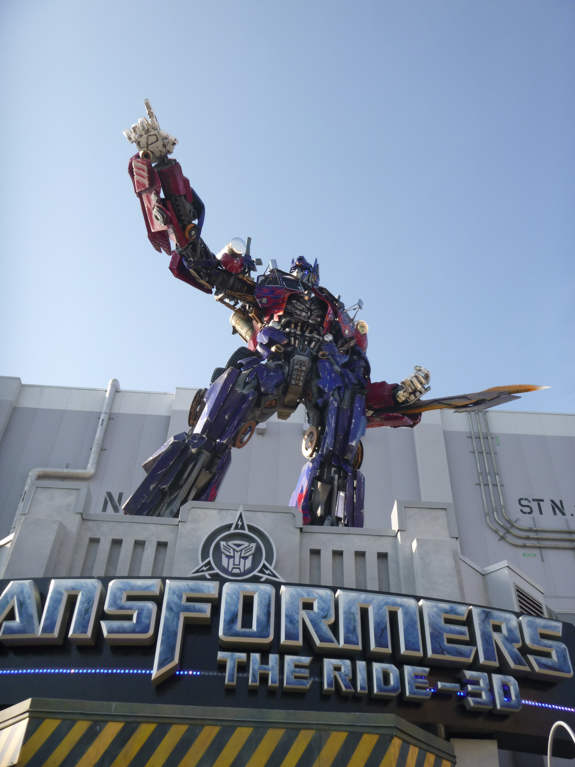 Statue Transformers: The Ride at Universal Studios Florida